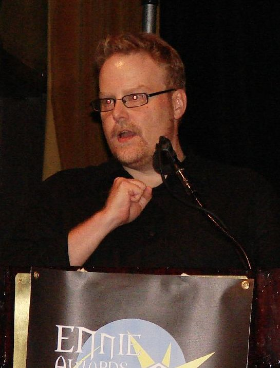 Monte Cook at the 2007 ENnies.